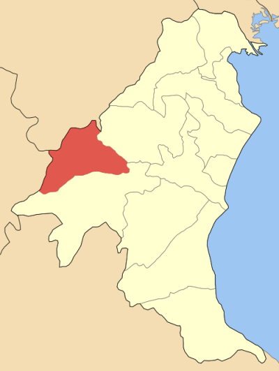 Locator map of Pierion municipality (Δήμος Πιερίων) at Pierias perfecture, Greece.